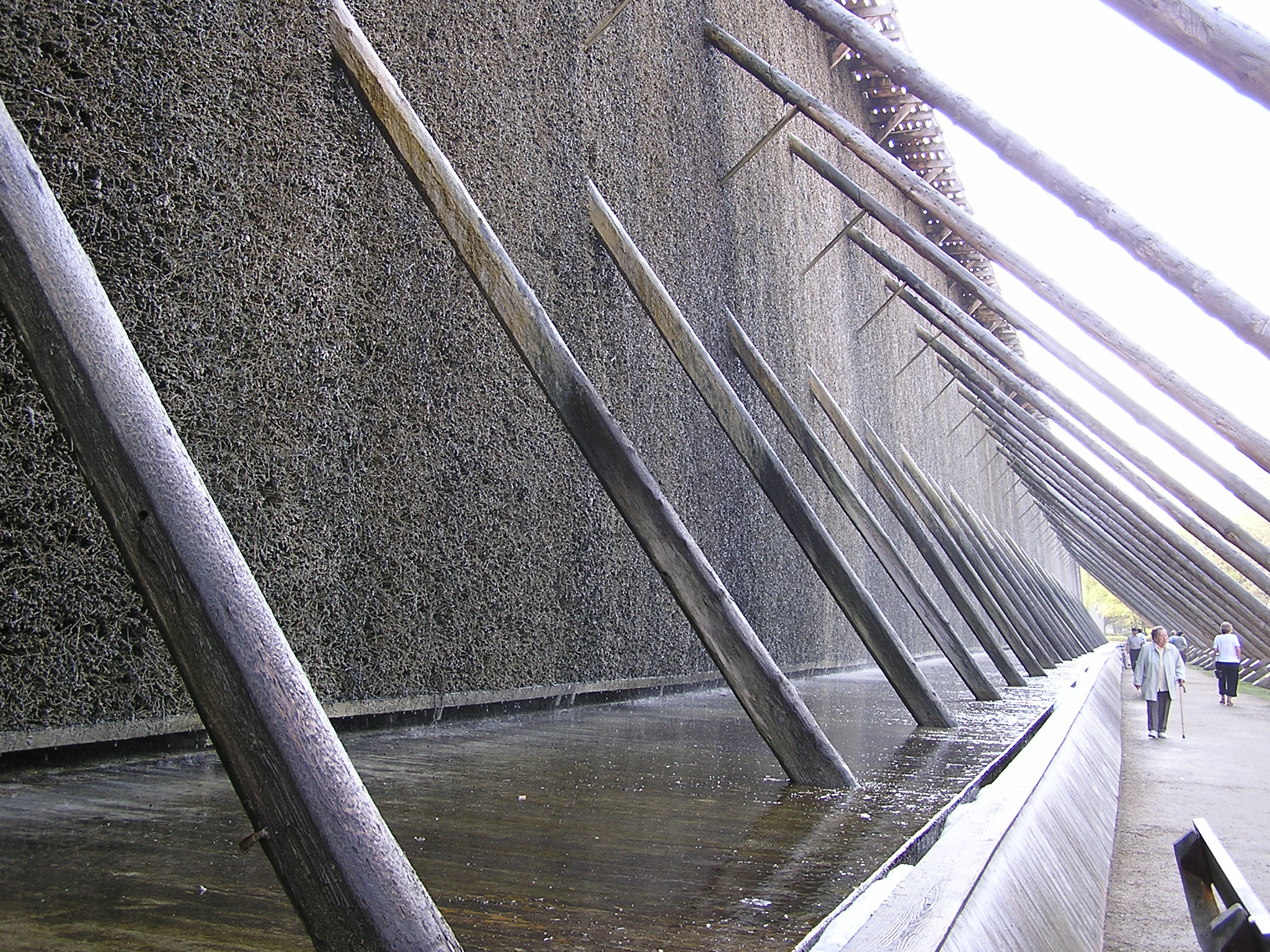 One of the graduation towers in Bad Nauheim